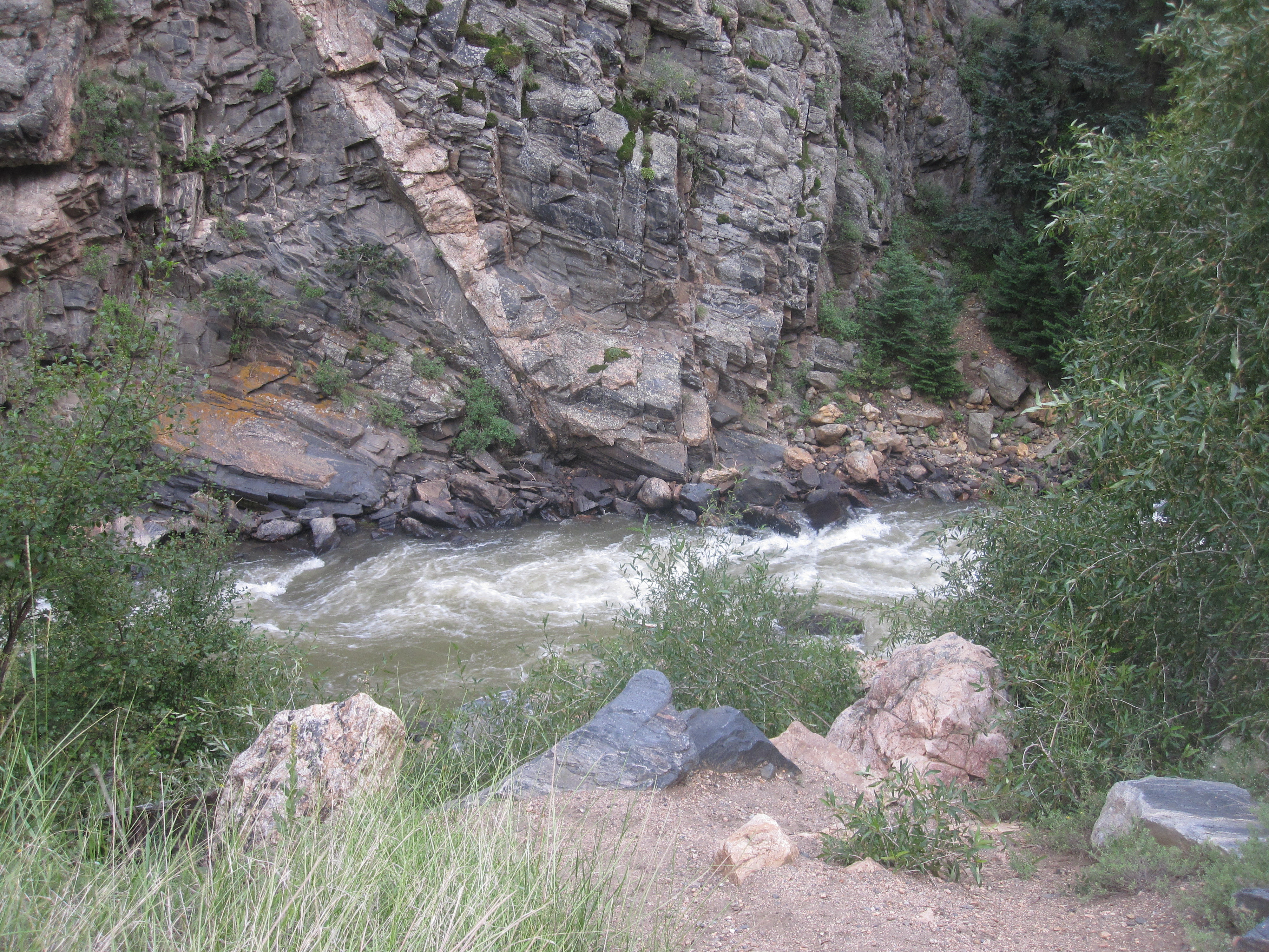 I took photo with Canon camera west of Golden, CO.